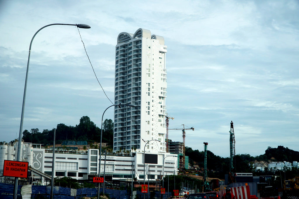 Southbay residential complex at Batu Maung on Penang Island.